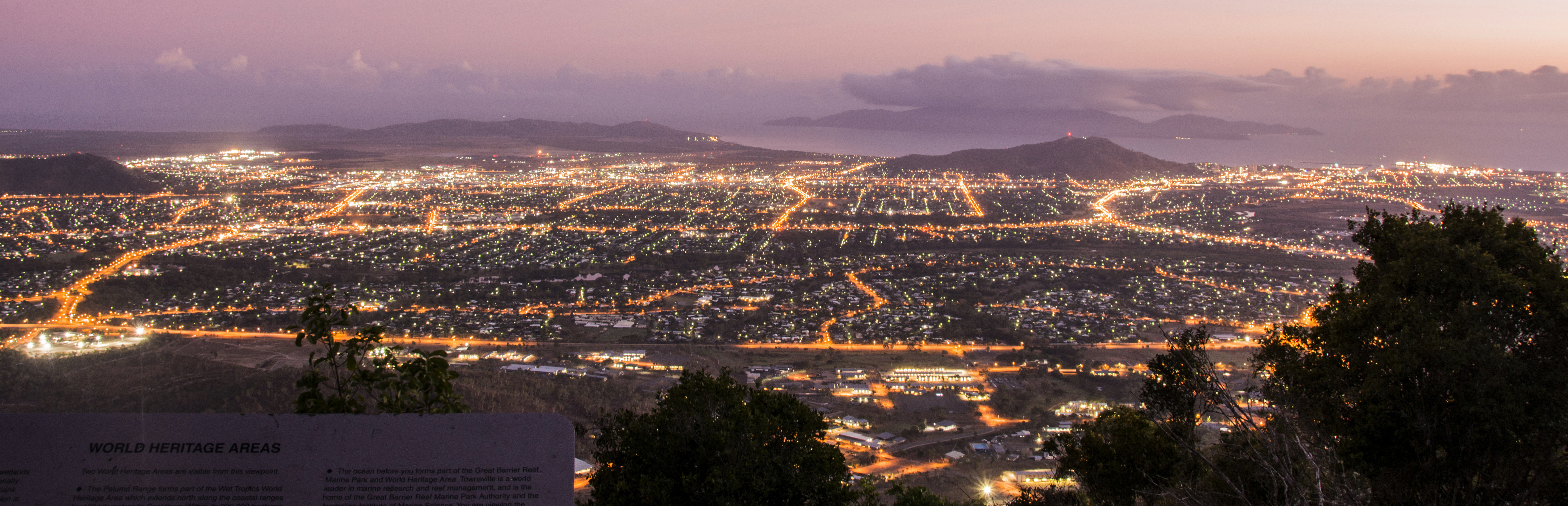 Panoramic view of Townsville from Mt Stuart at dusk